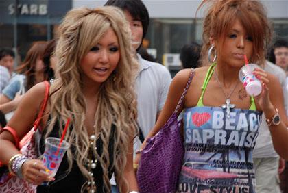 gals of shibuya